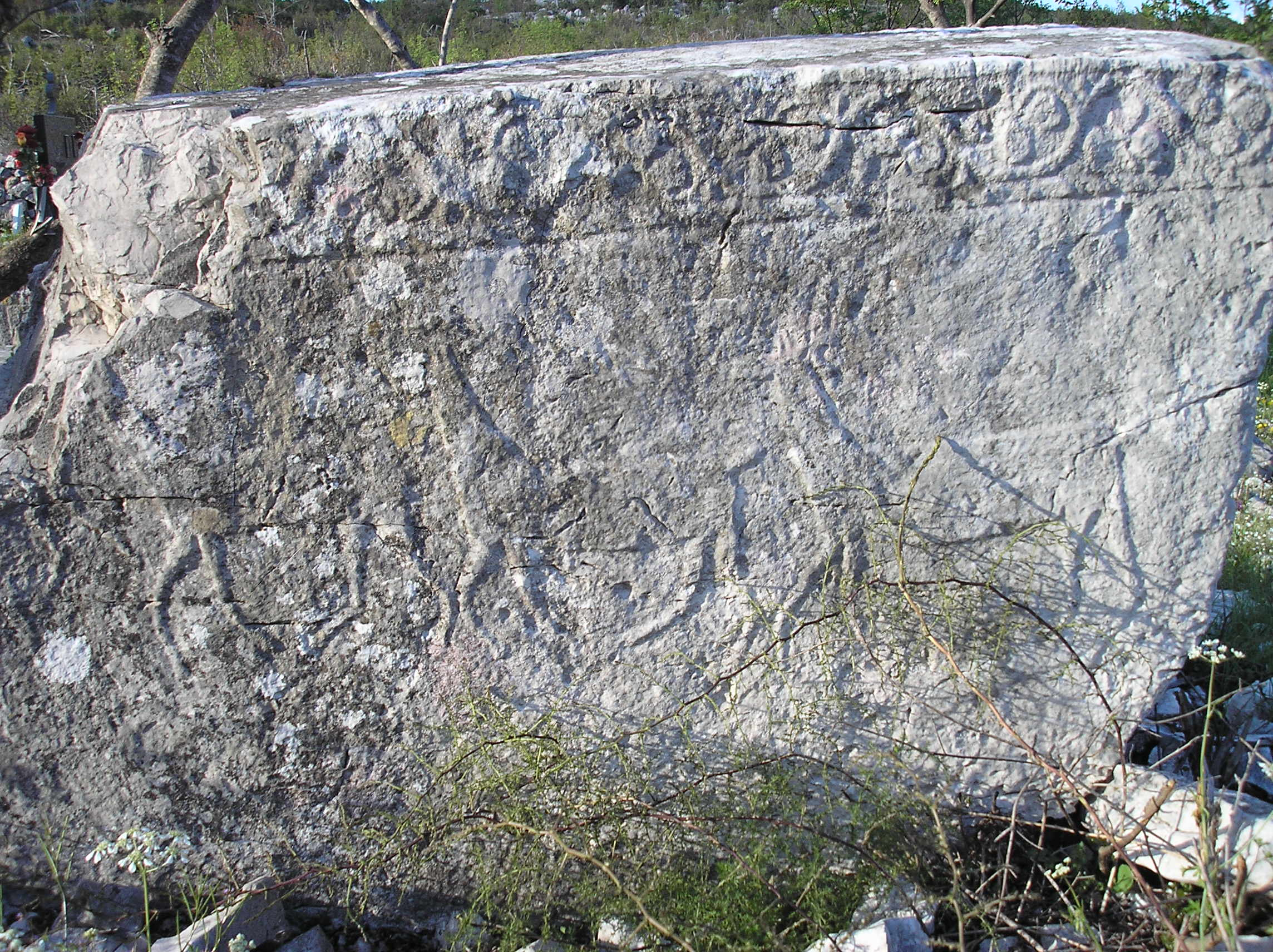 Stećak in the cemetery of the village Zaplanik